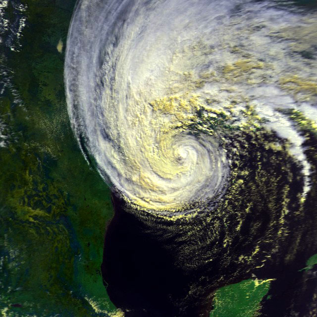 Hurricane Juan from NOAA 9. Inventory ID: NSS.GHRR.NF.D85301.S2034.E2228.B0452021